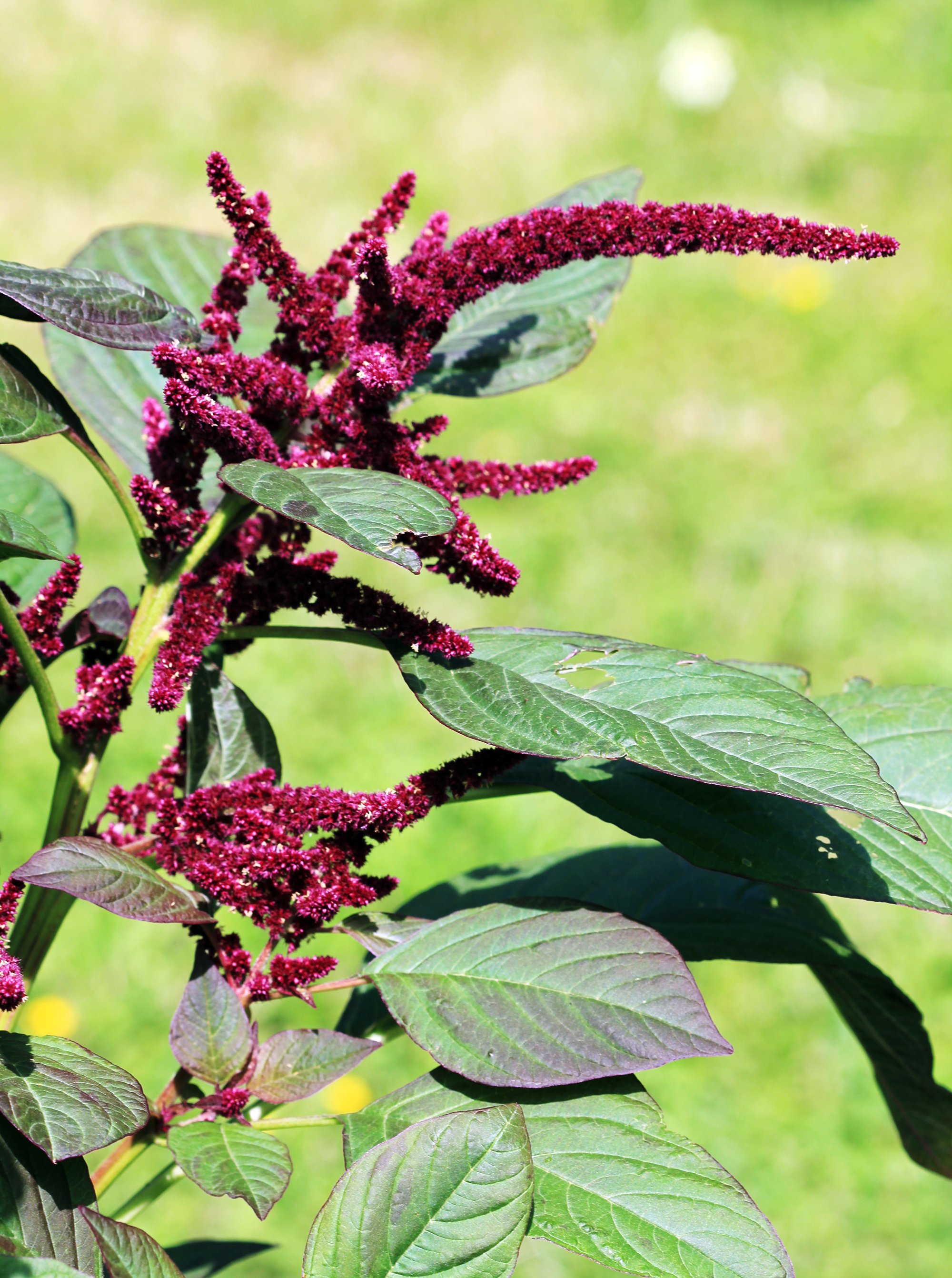 Flower of plant Amaranthus hypochondriacus, (Amaranthus hypochondriacus) from the Botanical Gardens of Charles University, Prague, Czech Republic